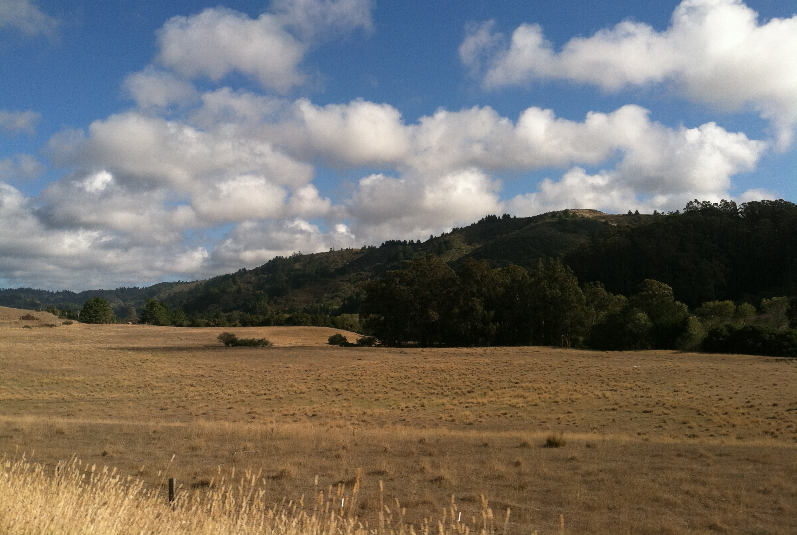 A photo taken between the small towns of La Honda and San Gregorio in September of 2013, about two-thirds of the way to San Gregorio.